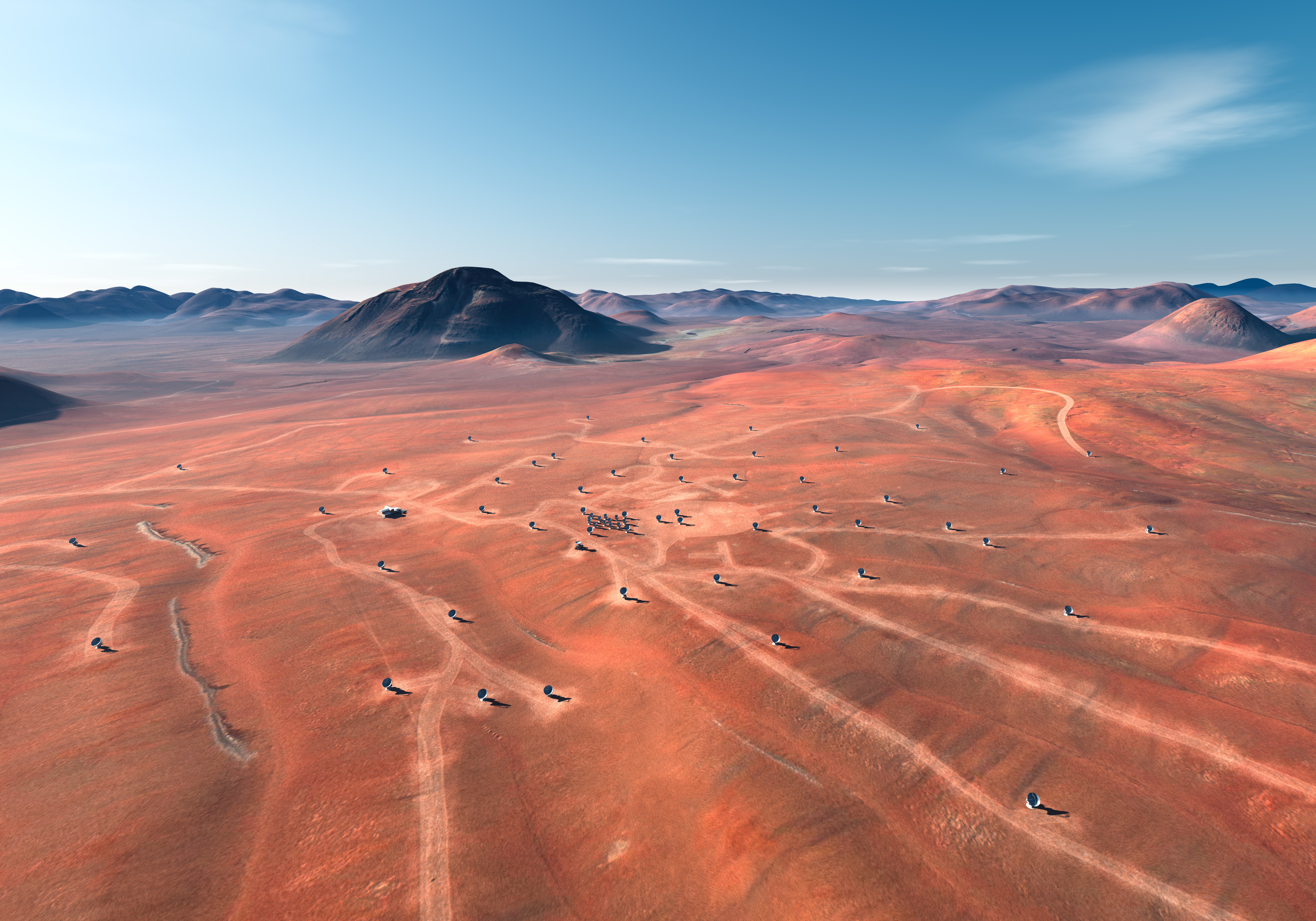 An artist's impression of the Atacama Large Millimeter/submillimeter Array (ALMA) site on the Chajnantor plain of the Chilean Andes, 5000 m above sea level. ALMA is the largest ground-based astronomy project in existence, and will be comprised of a giant array of 12-m submillimetre quality antennas, with baselines of several kilometres. An additional, compact array of 7-m and 12-m antennas will complement the main array. Construction of ALMA started in 2003 and will be completed around 2012. The ALMA project is an international collaboration between Europe, East Asia and North America in cooperation with the Republic of Chile.